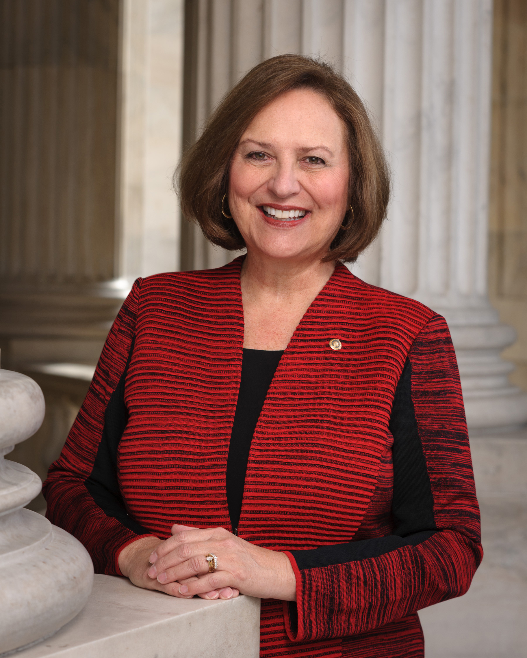 Official portrait of U.S. Senator Deb Fischer (R-NE)